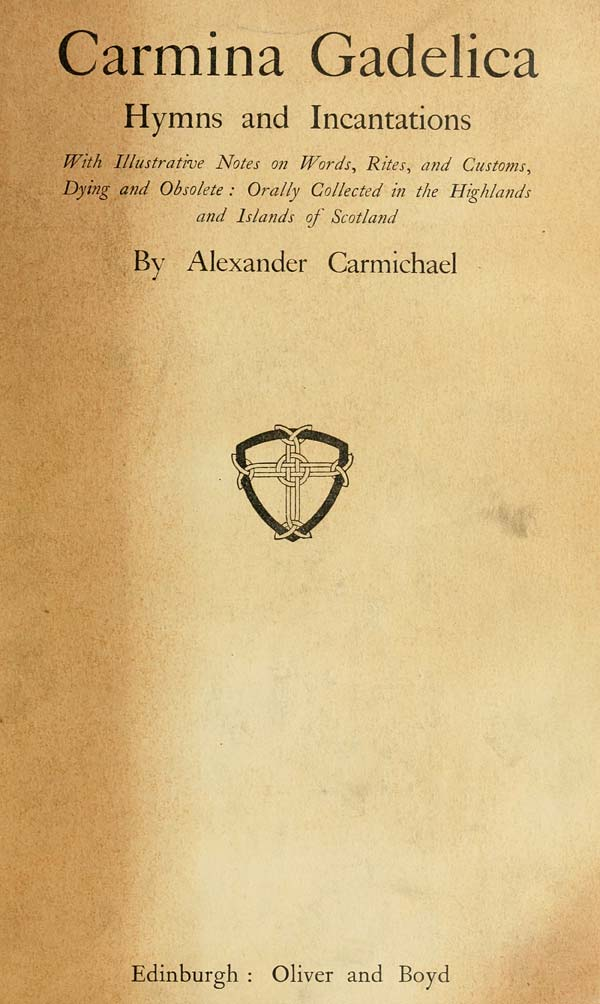 See title